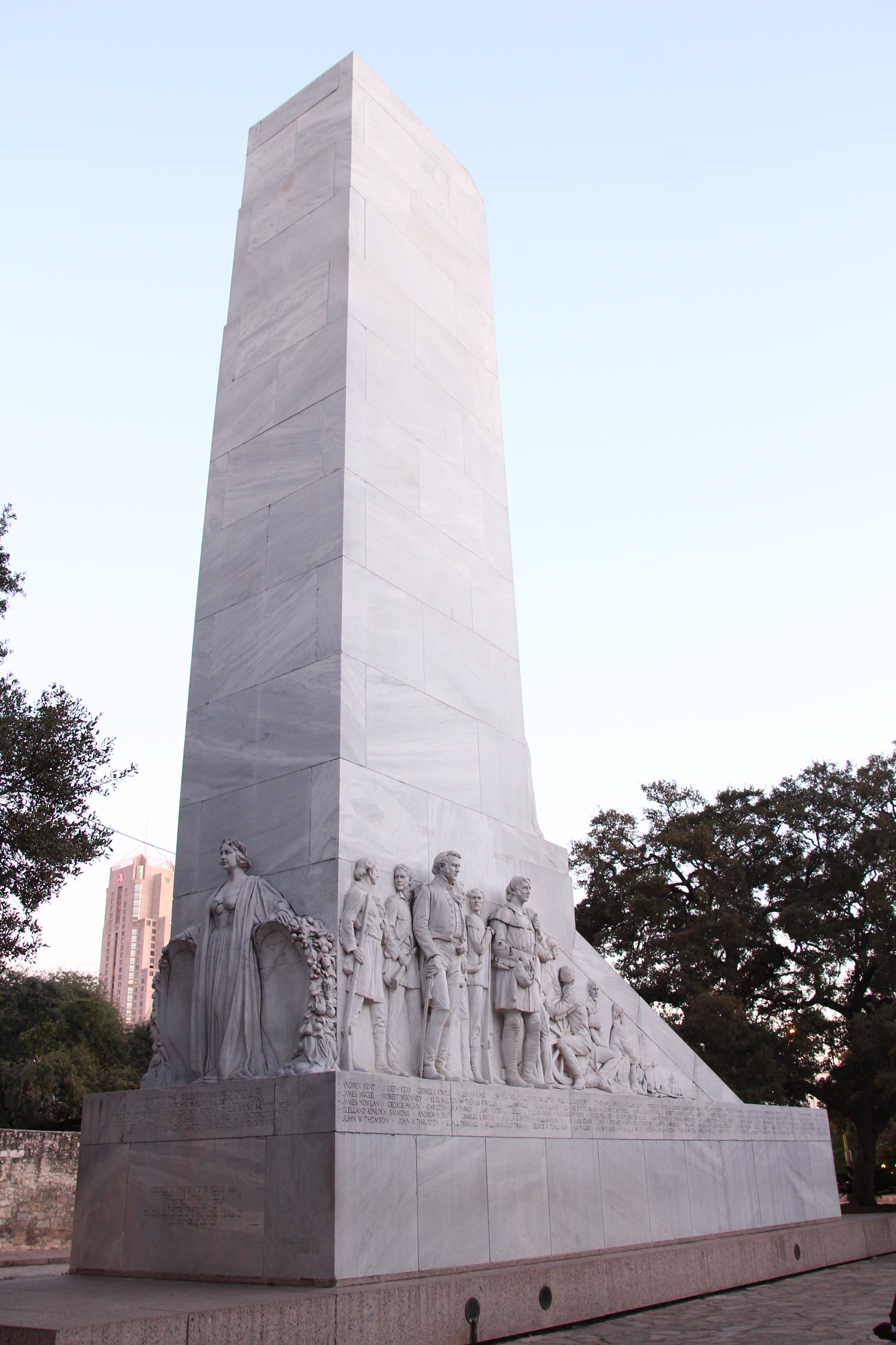 Memorial (cenotaph) at the Alamo Mission in San Antonio, Texas. Designed by Pompeo Coppini and installed between 1936 and 1940.